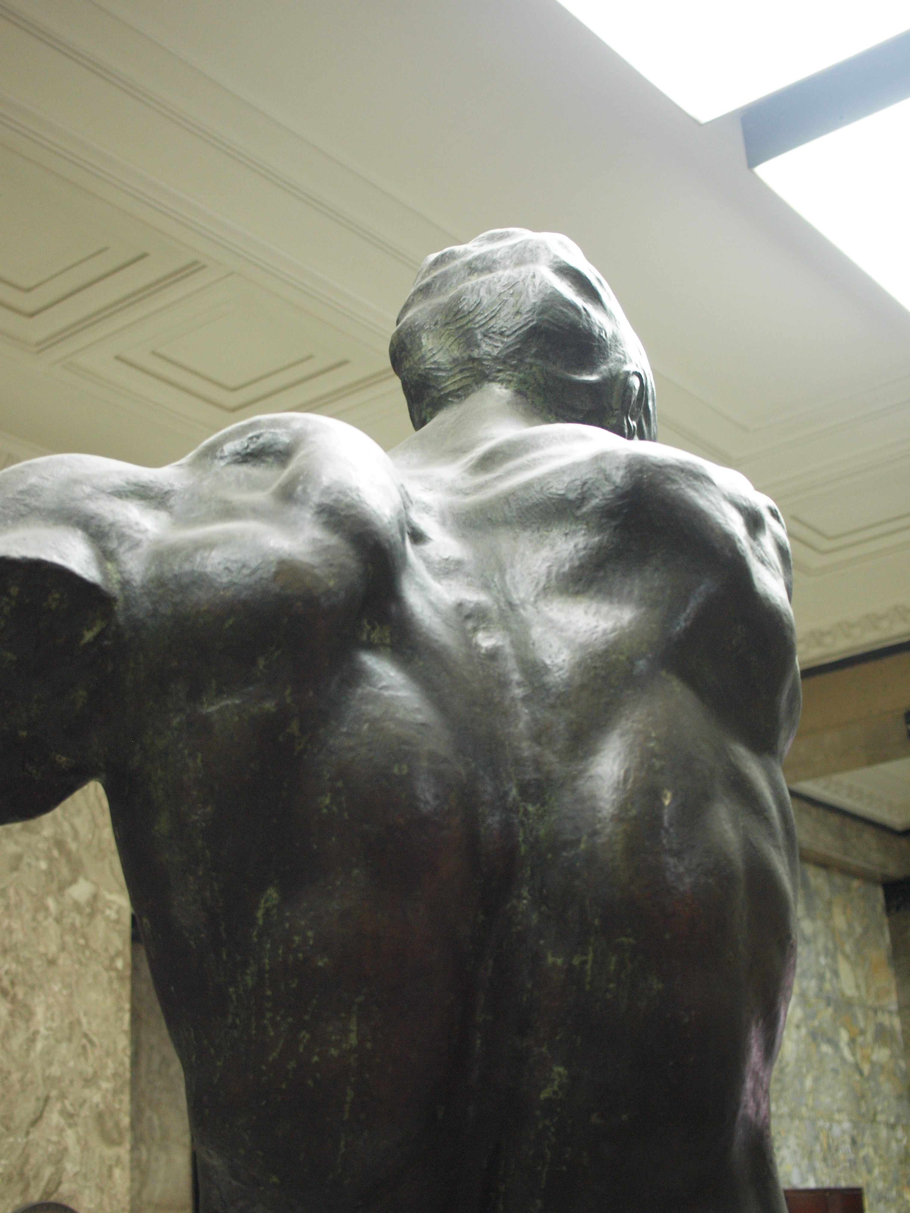 Ivan Meštrović Milos Obilic